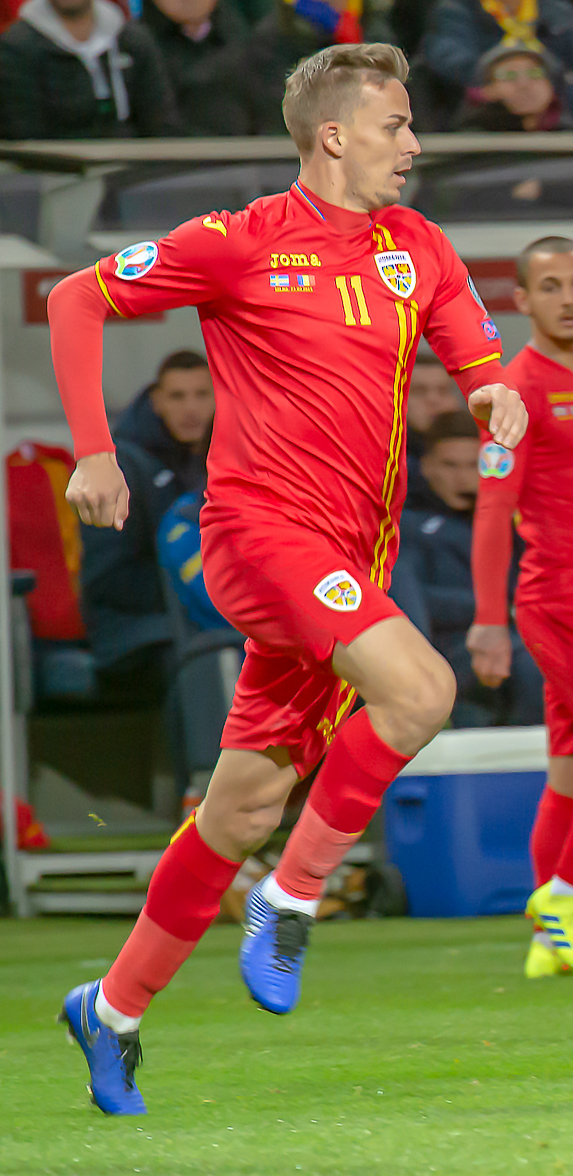 UEFA EURO qualifiers Sweden vs Romaina 20190323